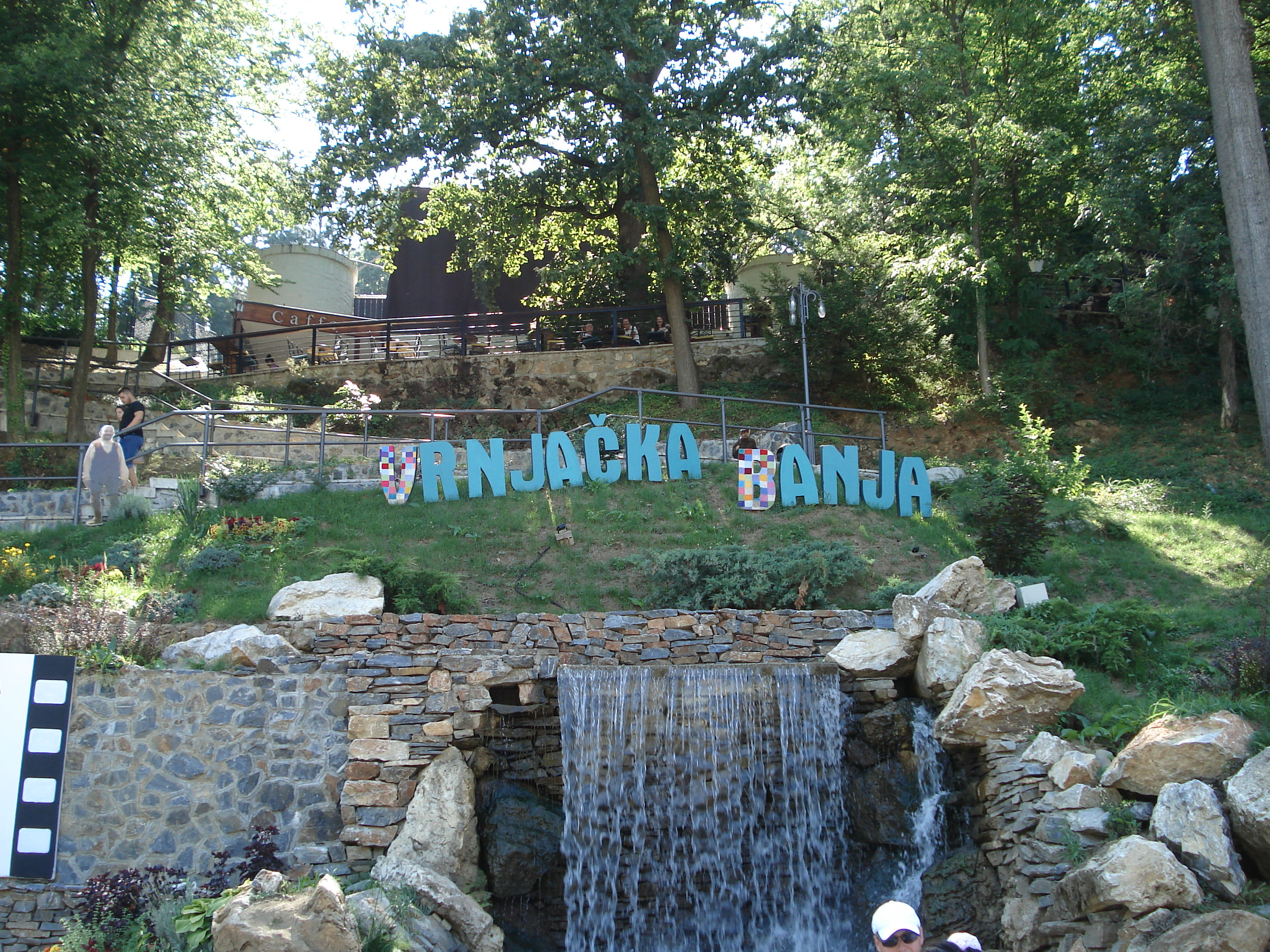 Logo u centru Vrnjačke banje, 2019. godine